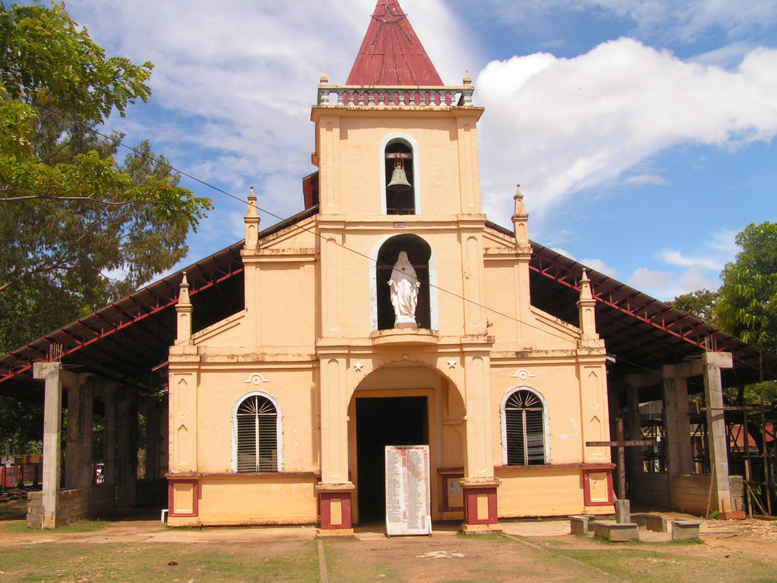 self-taken